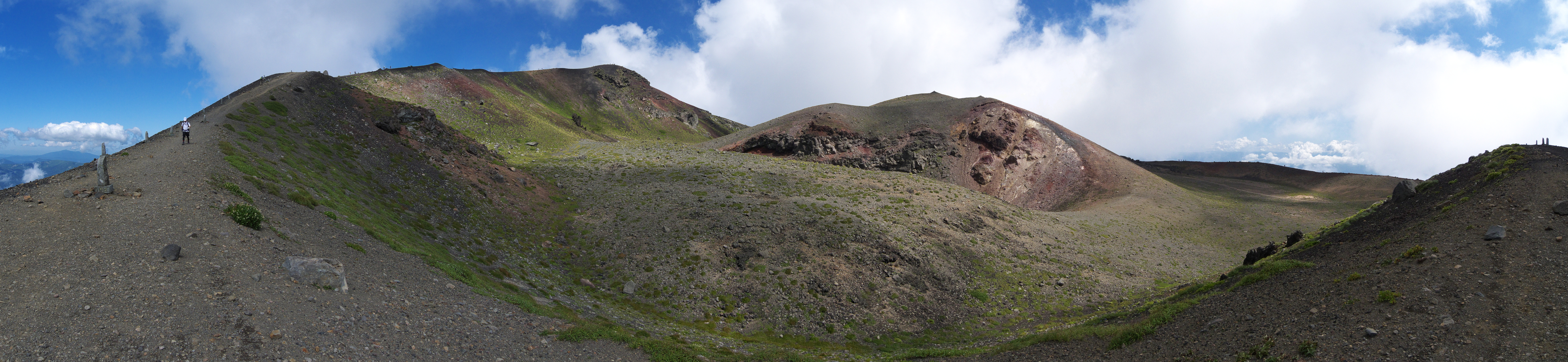 Panoramic of the crater of Mount Iwate in Iwate Prefecture, Japan